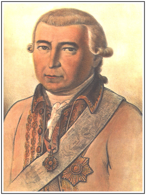 Russian admiral Alexey Ivanovich Nagaev.